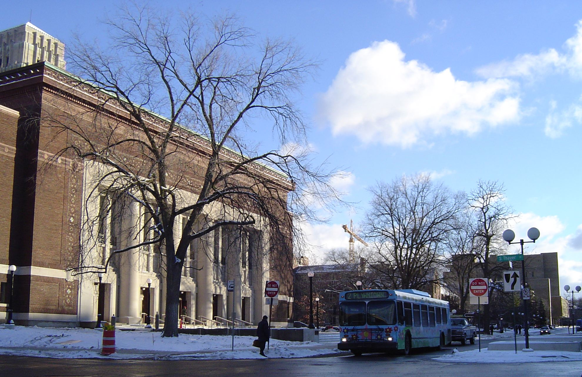 Hill Auditorium in Ann Arbor, Michigan